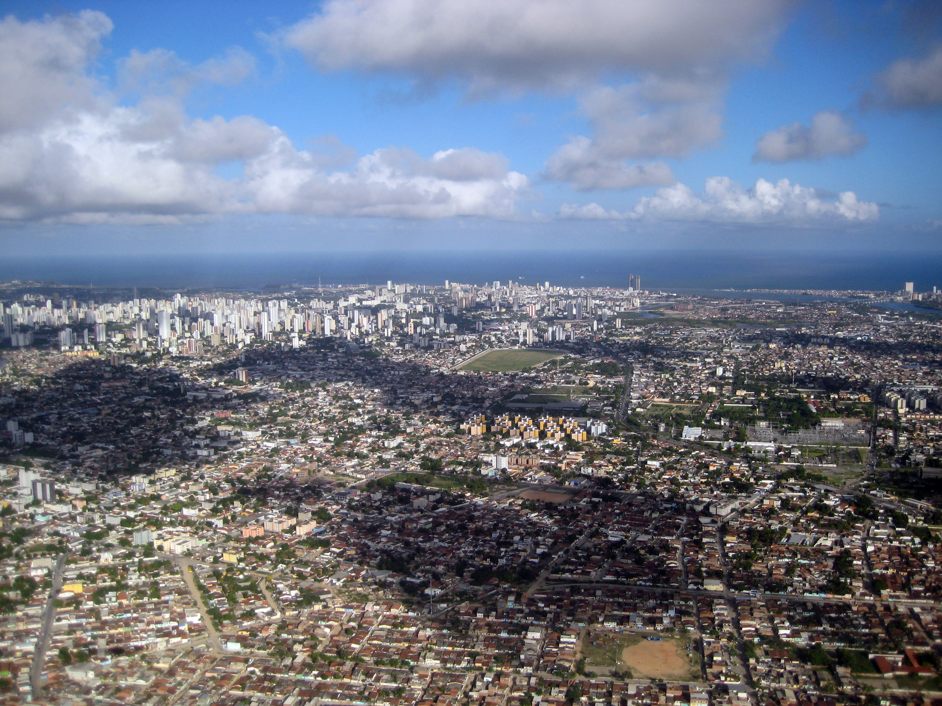 View of the city from the plane approaching the airportRecife, Pernambuco - Brazil